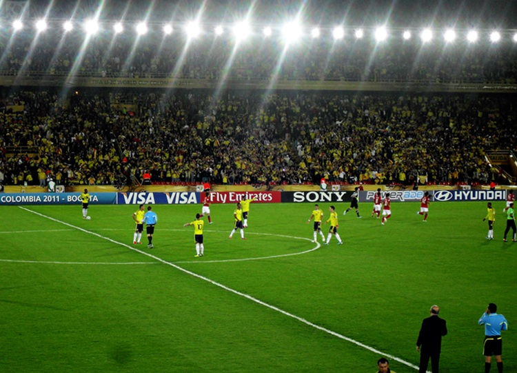 Soccer match